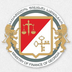 Georgian Ministry of Finances logo